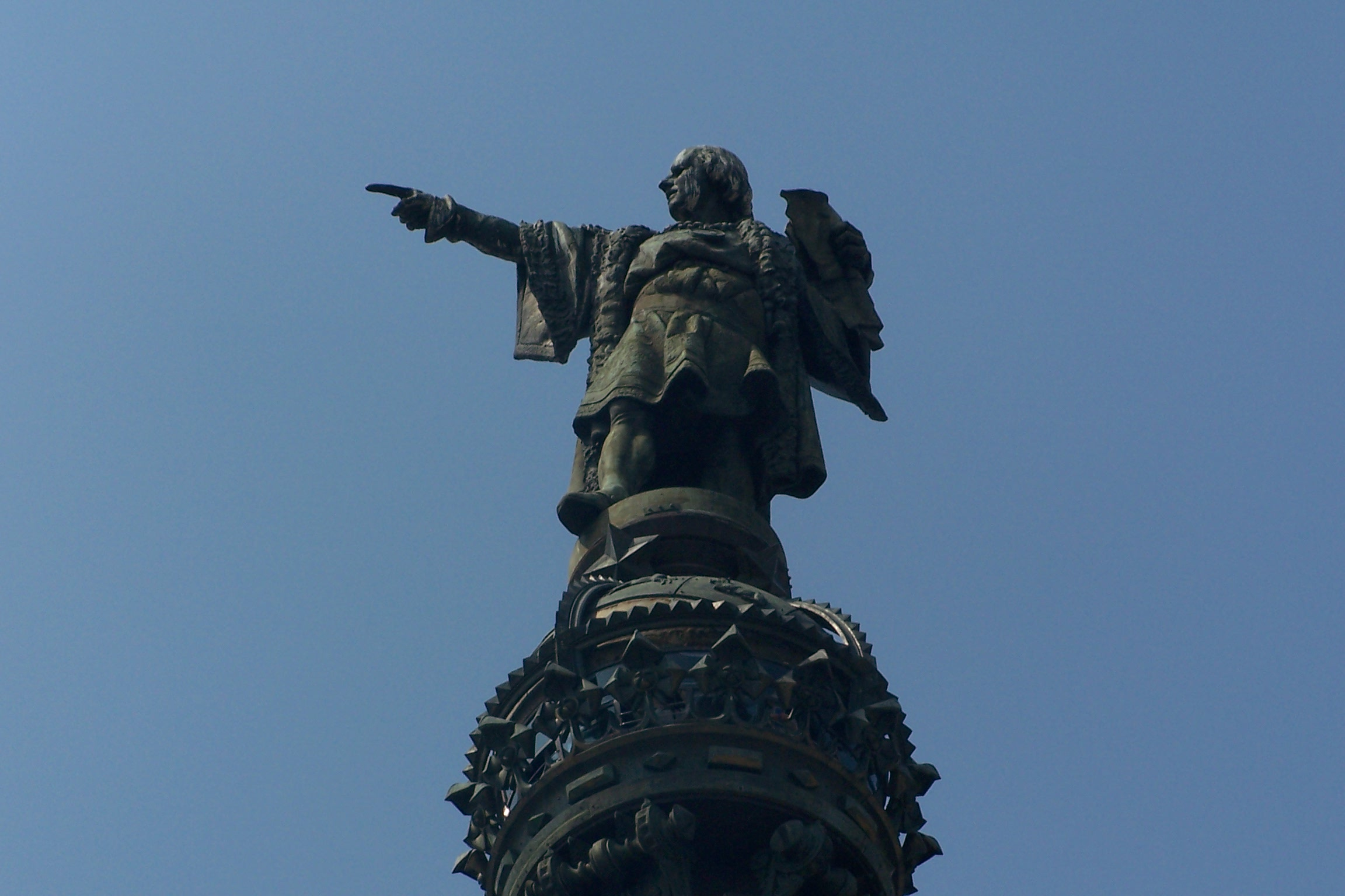 The biggest monument of Columbus. Spain, Barcelona port (4 april, 2009)